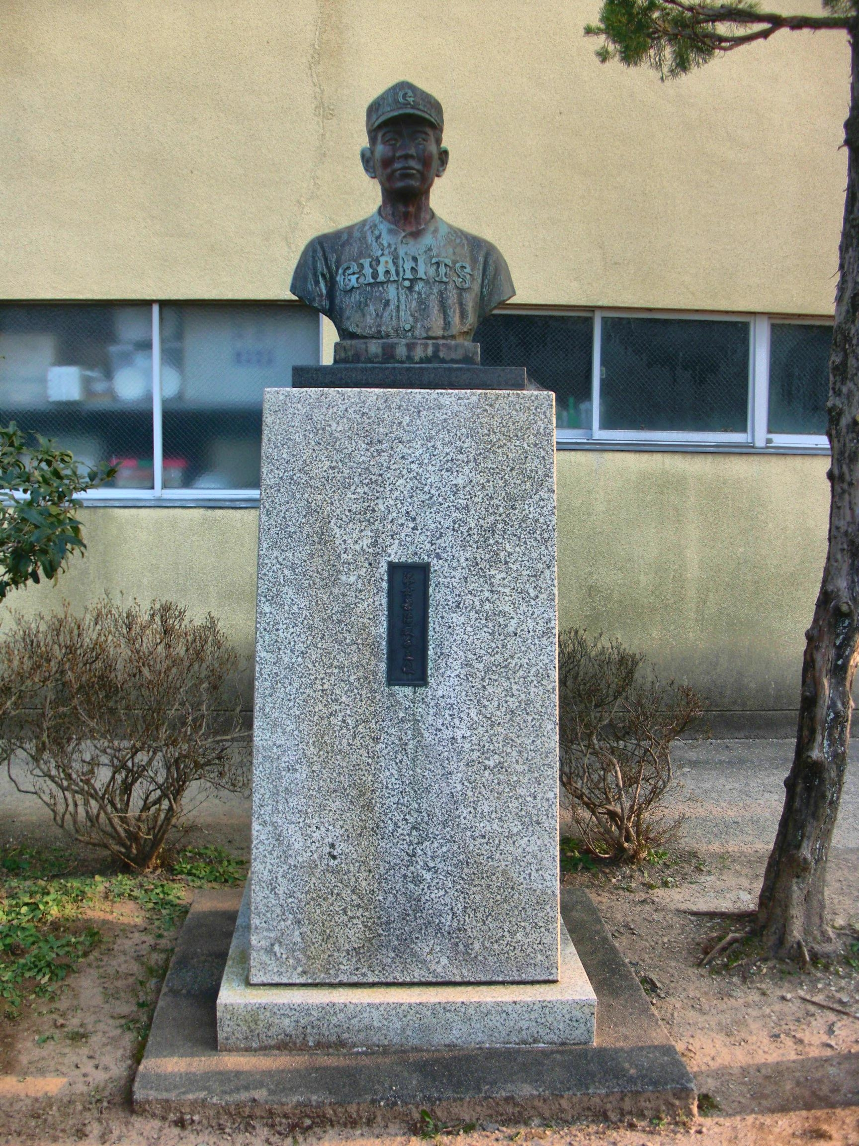 This is a statue of Eiji Sawamura, who was a great baseball player. This statue is in Ise city, hometown of Sawamura.